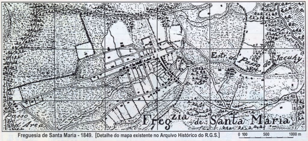 Map of Freguesia de Santa Maria in 1849 - Santa Maria